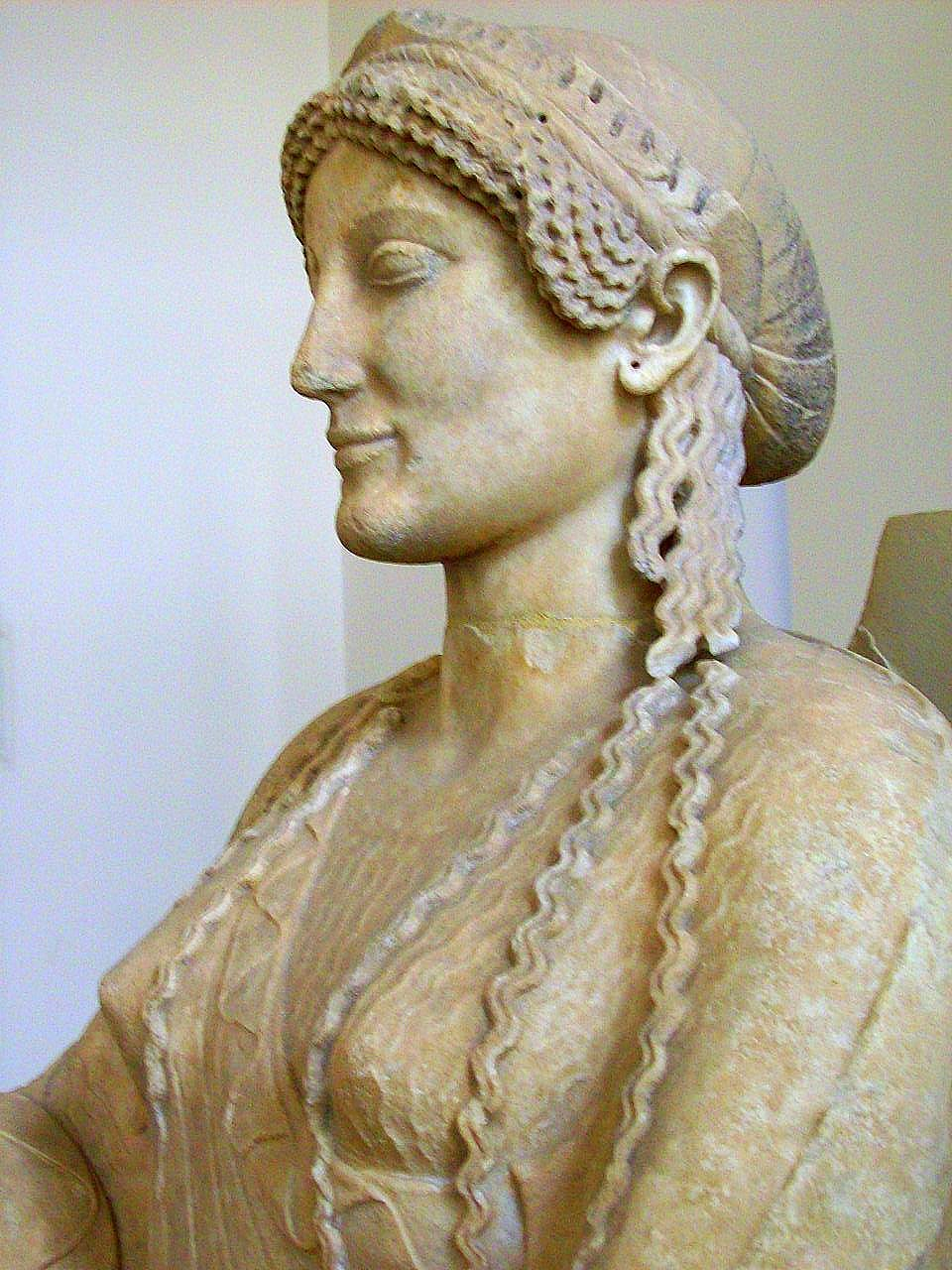 Throning goddess, marble statue supposed to be Persephone, queen of the underworld, 480-460 BC, found in Taranto, Italy. (Berlin inventory number Sk 1761), Pergamon Museum, Berlin